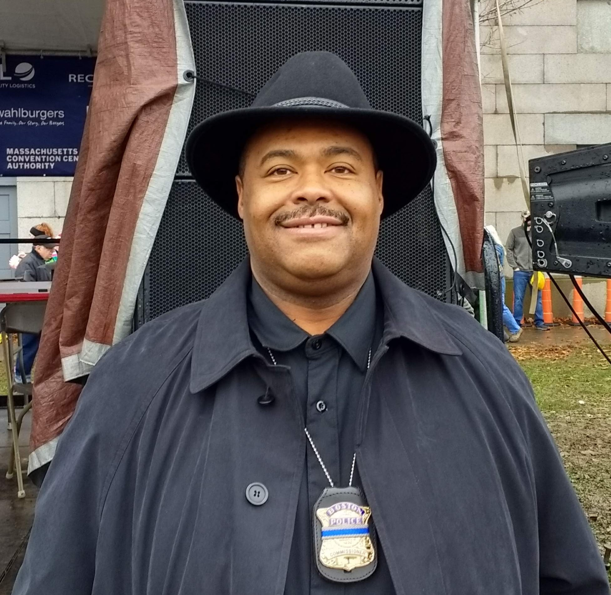 William G. Gross the 42nd Commissioner of the Boston Police Department.